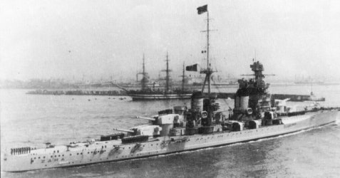 Italian heavy cruiser Zara.